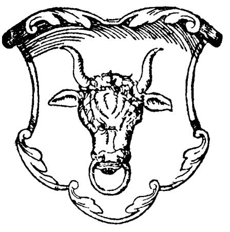 Coat of arms Wieniawa from Heraldyka polska wieków średnich